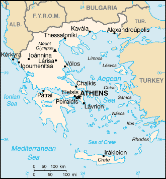 Map of Greece and Aegean Sea. License: Uploaded from English Wikipedia. "This image is a work of a Central Intelligence Agency employee, taken or made during the course of an employee's official duties. As works of the U.S. federal government, all images created or made by the CIA are in the public domain, with the exception of classified information. Subject to disclaimers." haber-bosch